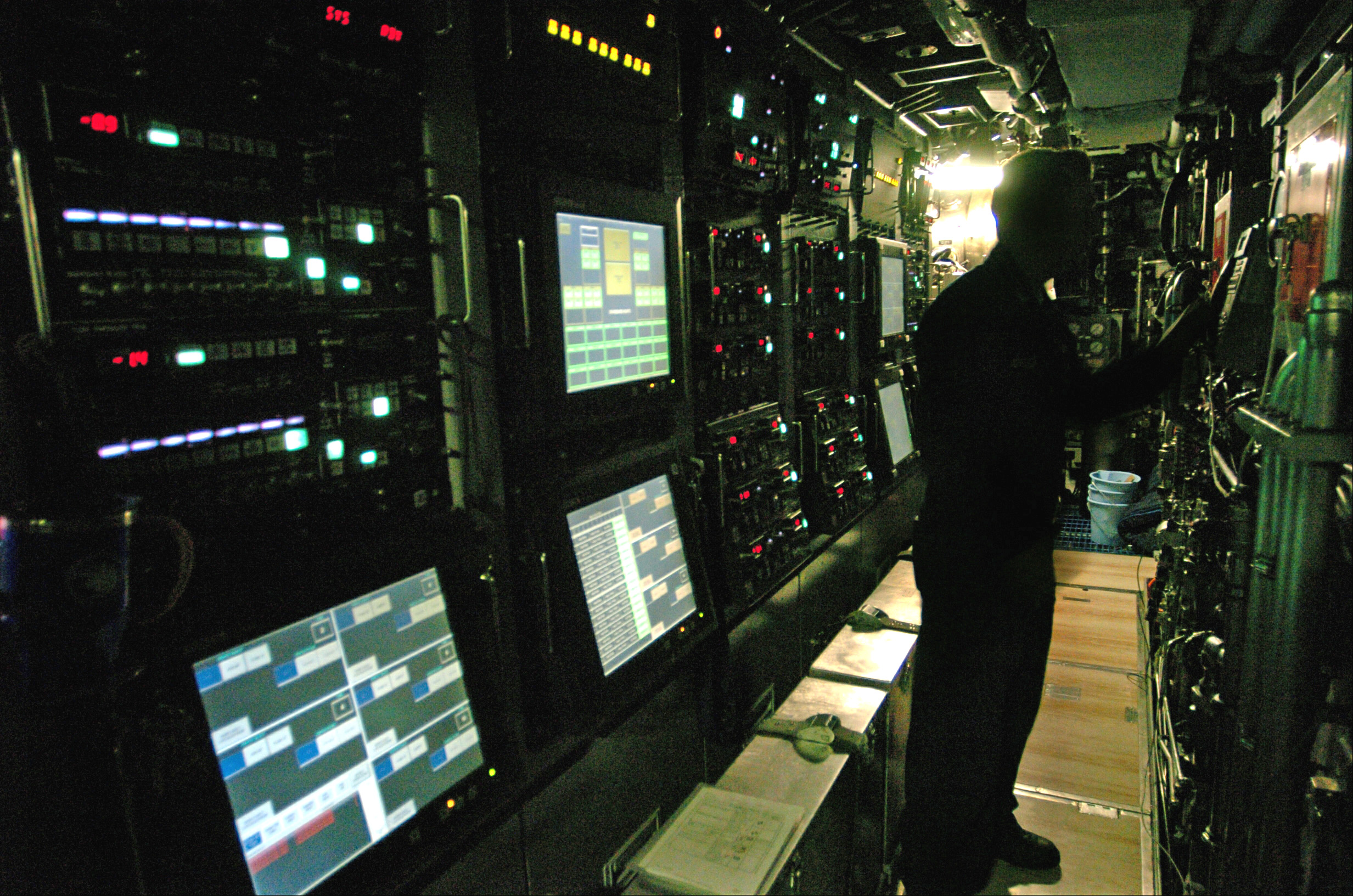 040822-N-2653P-370 Atlantic Ocean – PCU Virginia (SSN 774) has one of the most advanced torpedo delivery systems in the fleet. In addition to torpedoes, the Virginia-class will be armed with Tomahawk cruise missiles and has been designed to host the Advanced SEAL Delivery System (ASDS) and Dry-Deck Shelter to support various missions. Virginia is the Navy’s only major combatant ready to join the fleet that was designed with the post-Cold War security environment in mind and embodies the war fighting and operational capabilities required to dominate the littorals while maintaining undersea dominance in the open ocean.